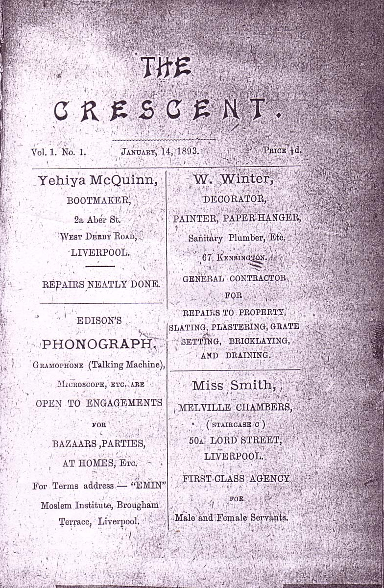 The Crescent newspaper 1st edition vol 1 no. 1 published 14th January 1898, 32 Elizabeth Street, Liverpool, England